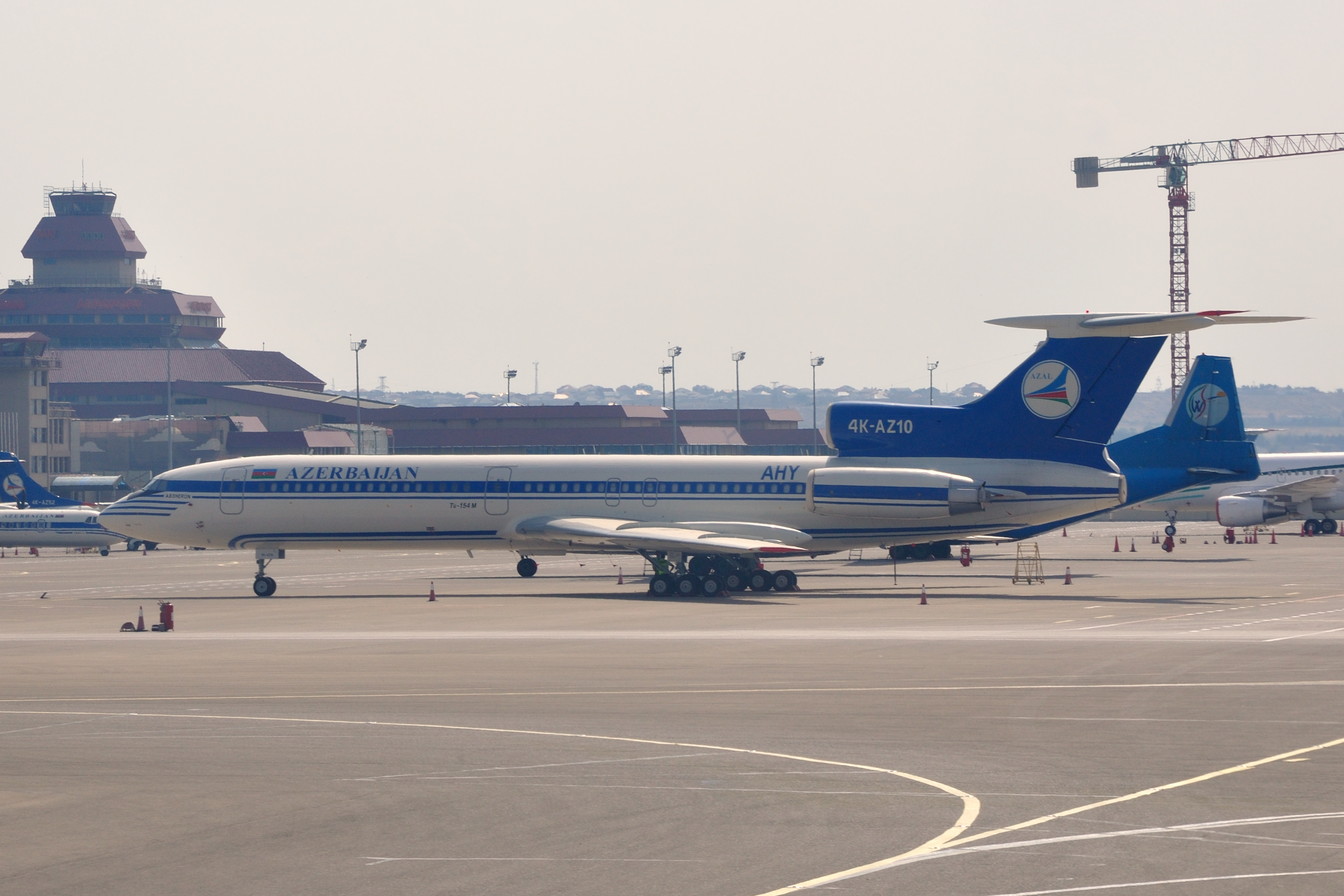 Azerbaijan, aircraft at Heydar Aliyev International Airport in Baku